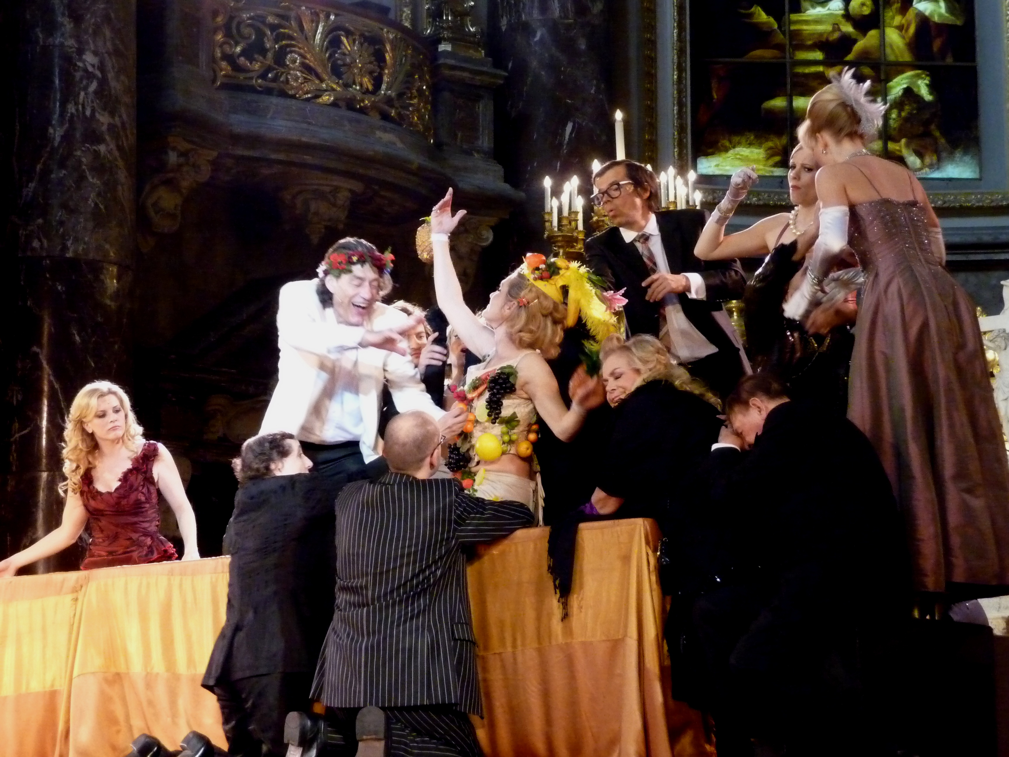 Scene from Hugo von Hofmannsthal's "Jedermann" with German actors Eva Habermann, Winfried Glatzeder and others, Berlin Cathedral, Germany